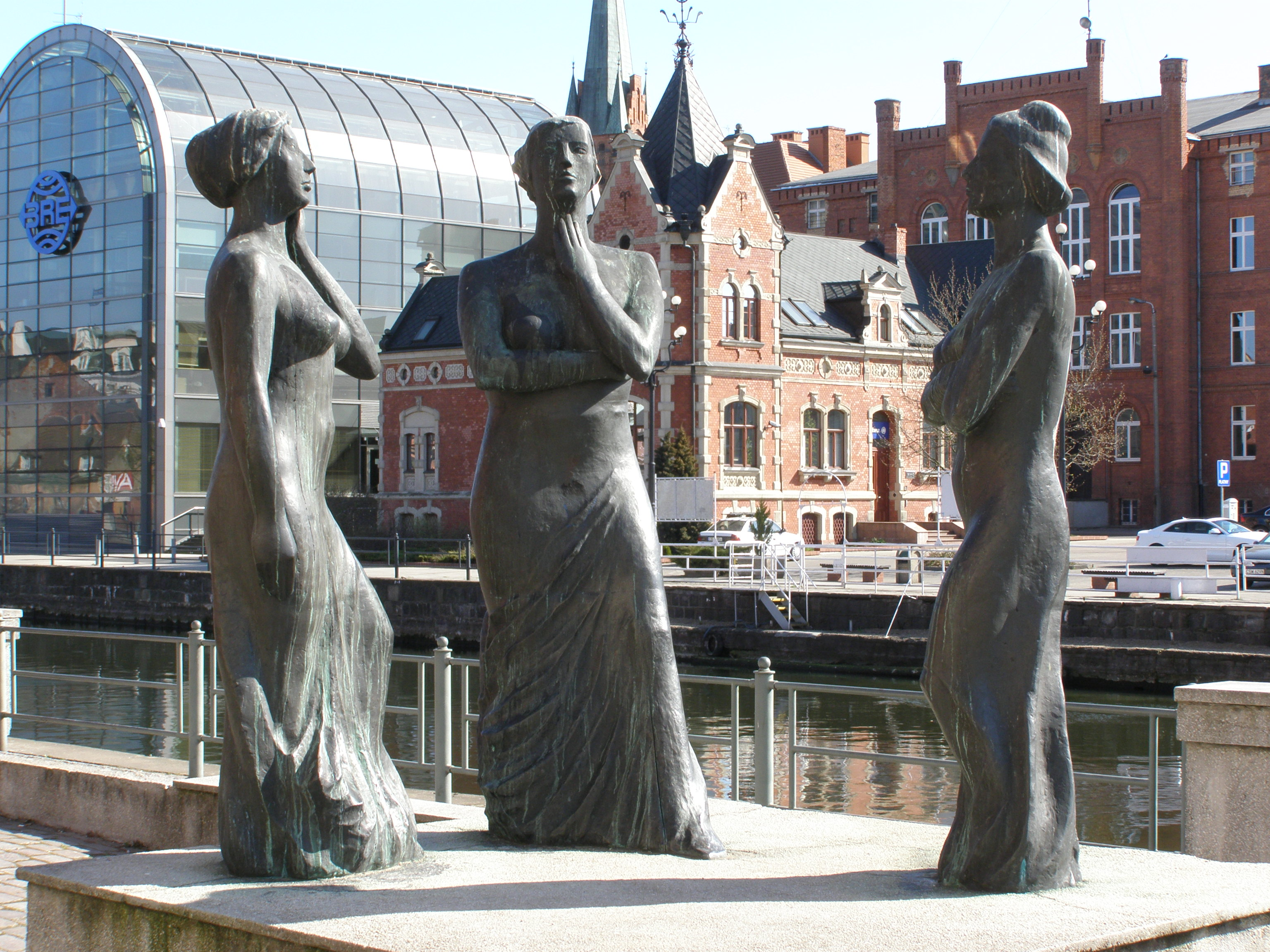 Trzy Gracje (Three Graces) - monument in Bydgoszcz